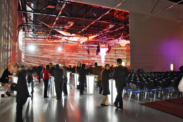 interior view of Metropolis Hall with partition wall